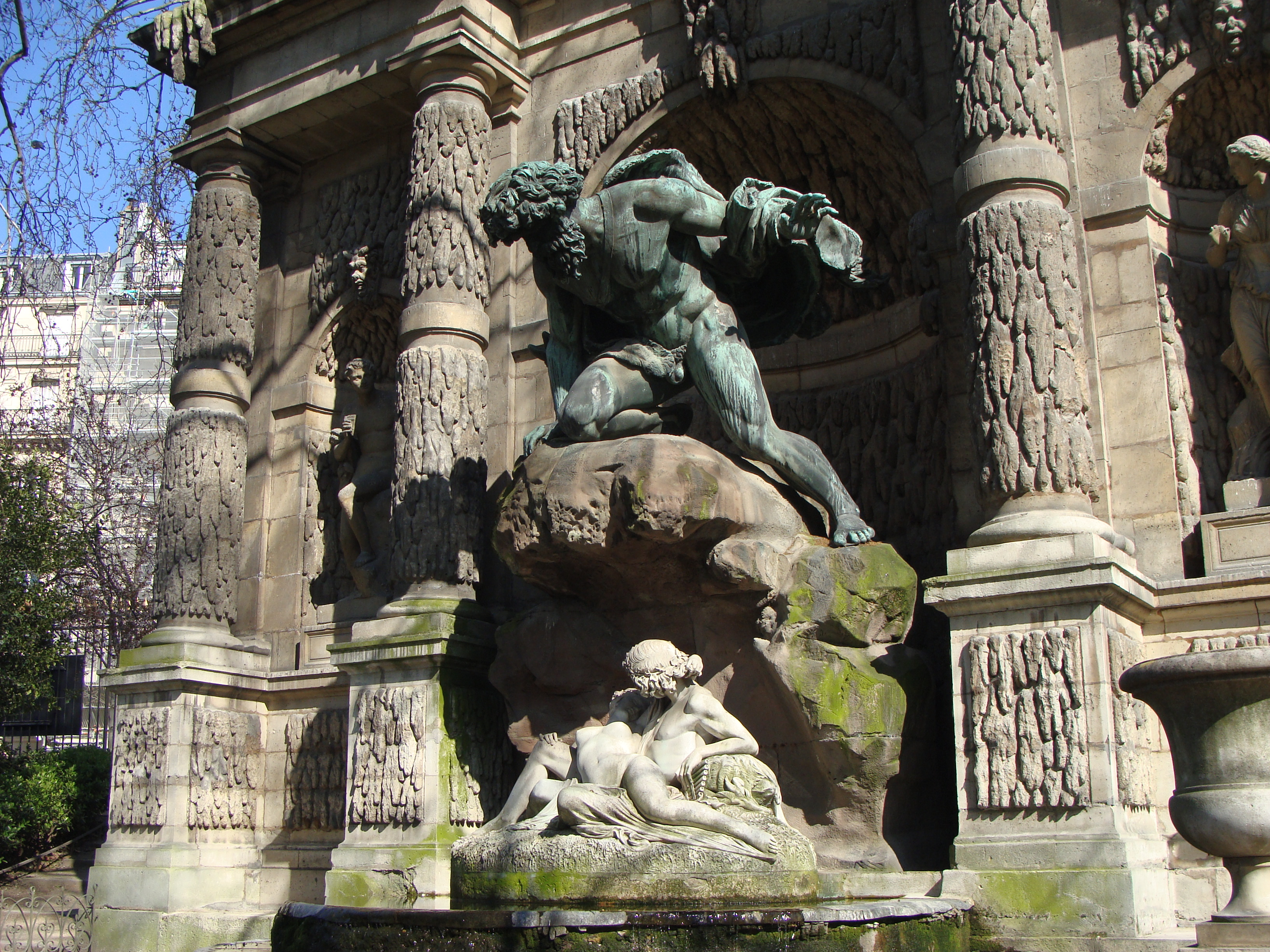 Polyphemus Galatea Acis - Ottin, Paris